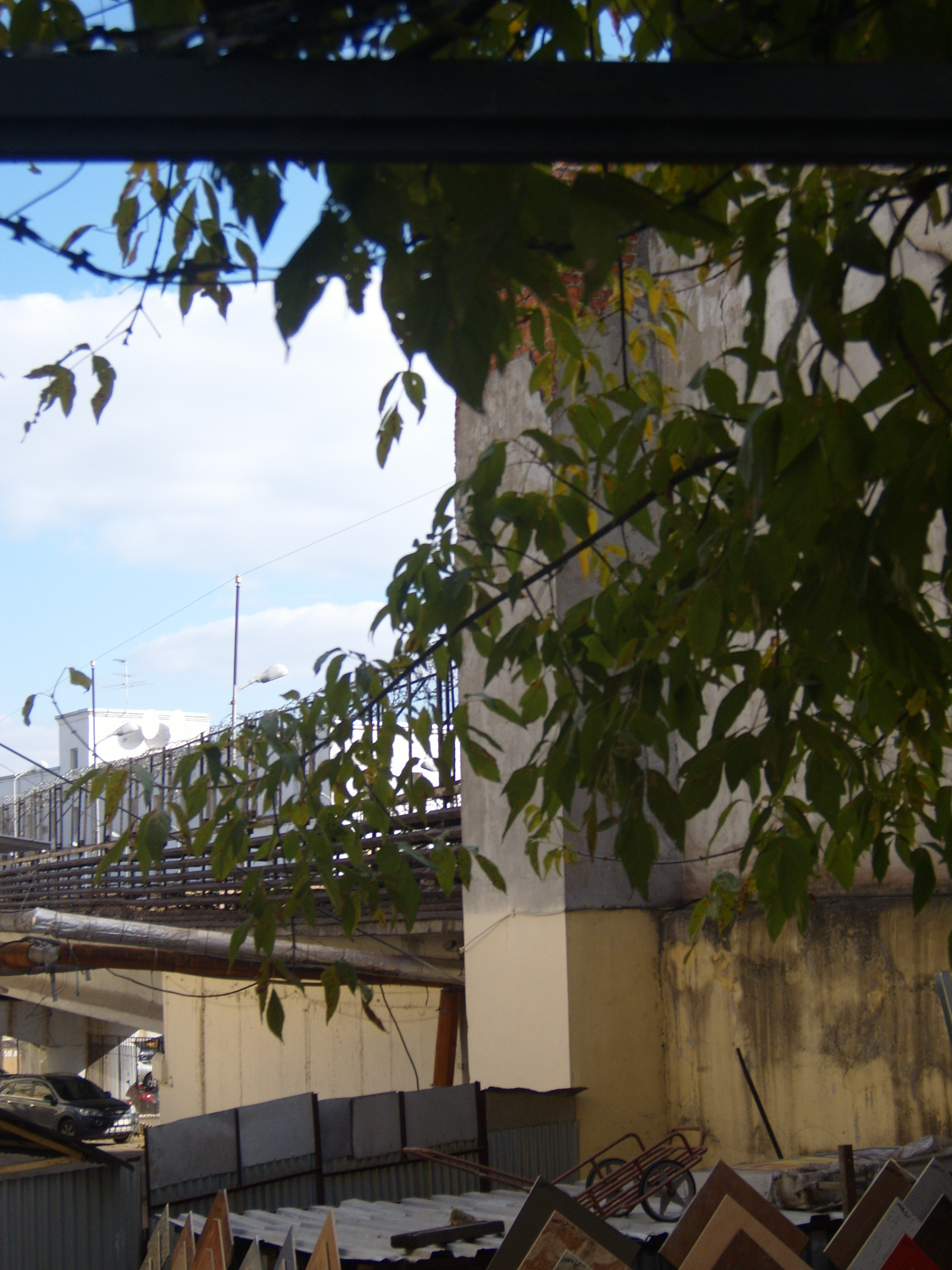 Preobrazhenskiy metrobridge of Moscow Metro